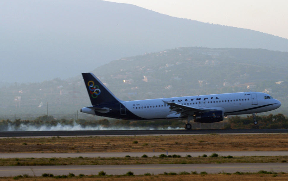 SX-OAI of Olympic Airways seen here landing at Athens Elefterios Venizelos International Airport